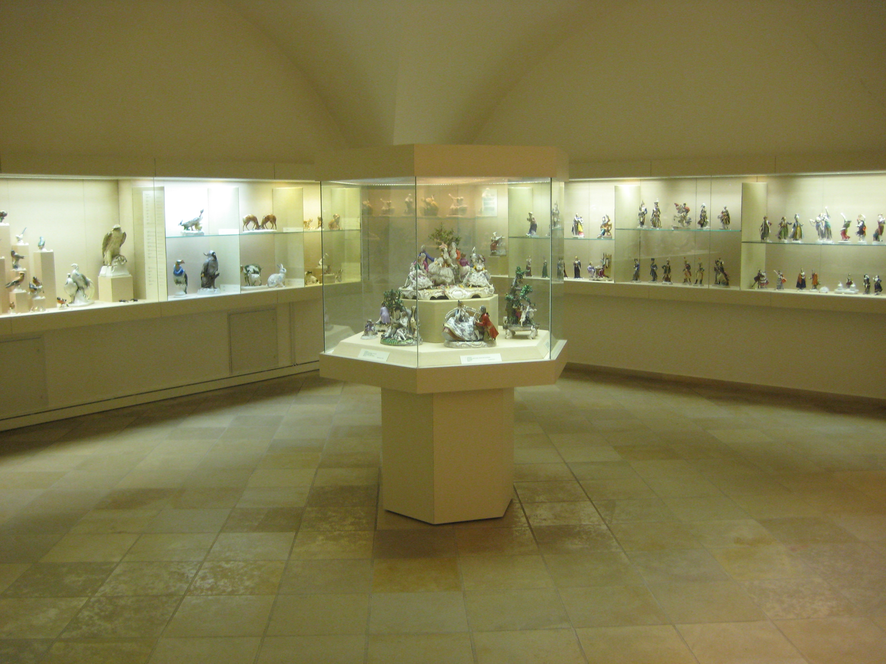 Museum in Veste Oberhaus, Passau